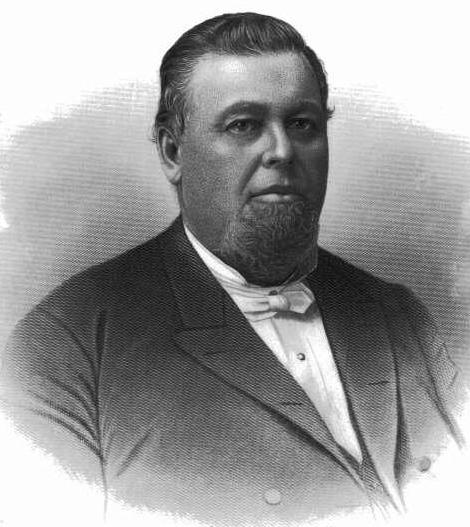 Reuben Ellwood, US Representative from Illinois